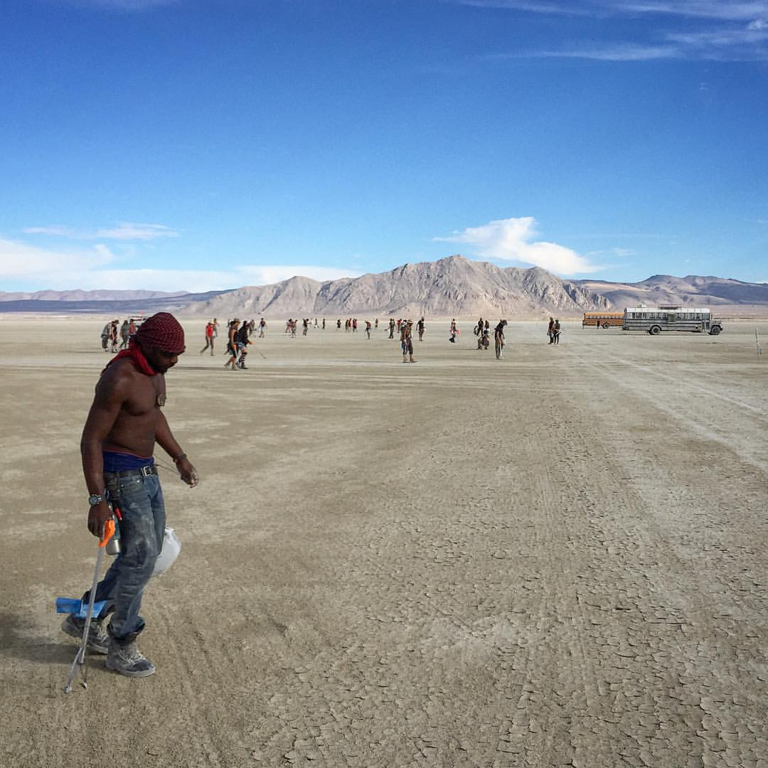 Shinobi walks the line. #PlayaRestoration #DPW2015 #DPW